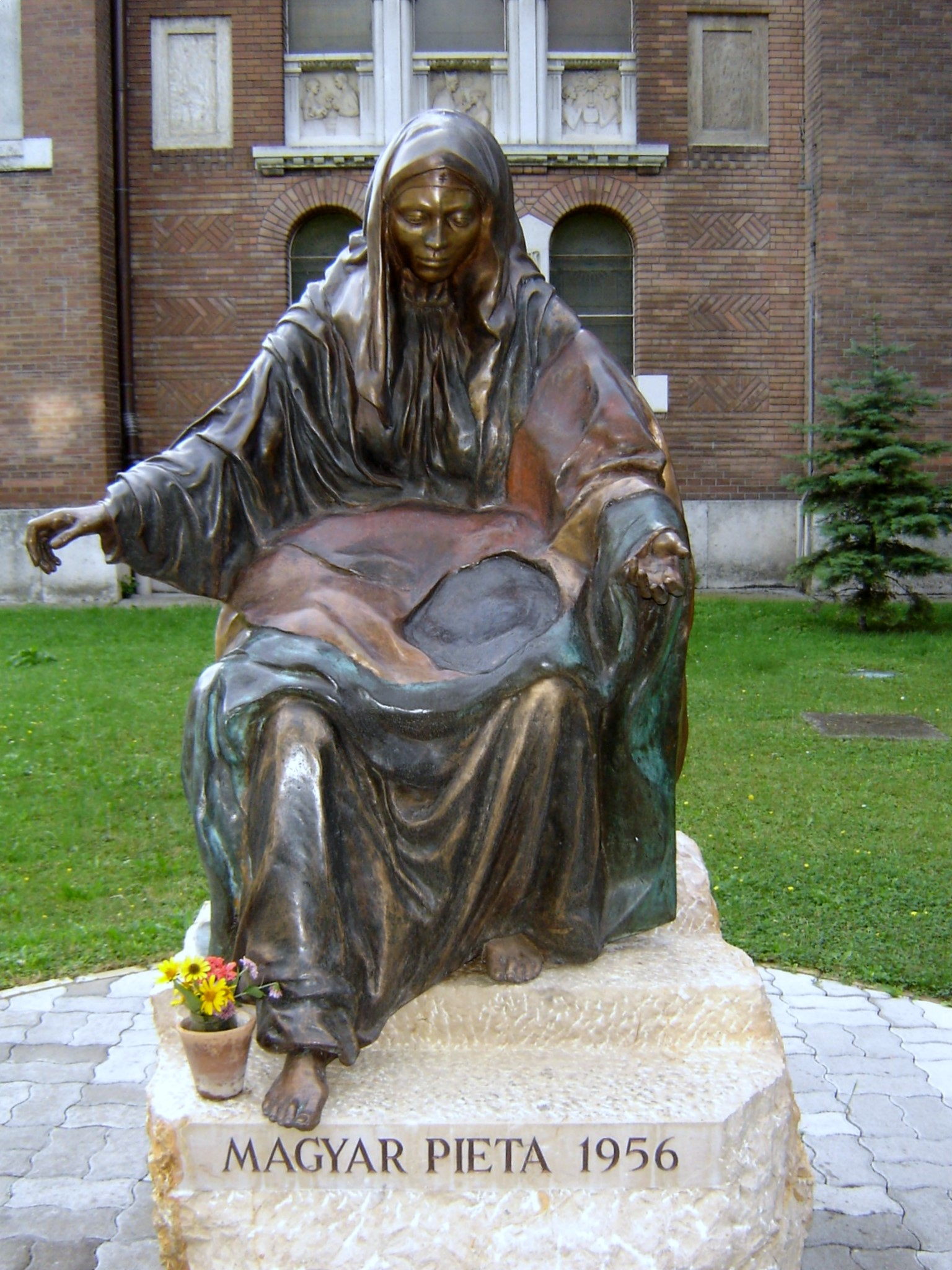 Klára Tóbiás: Hungarian Pieta 1956 (Statue in Szeged near Cathedral in Dóm square)